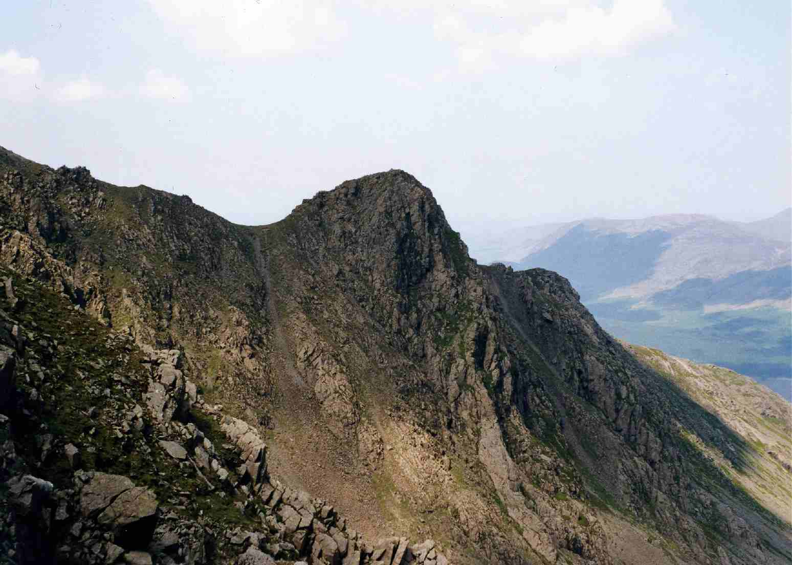 Steeple seen from Wind Gap between Scoat Fell and Pillar Personal photograph taken by Mick Knapton in May 1990